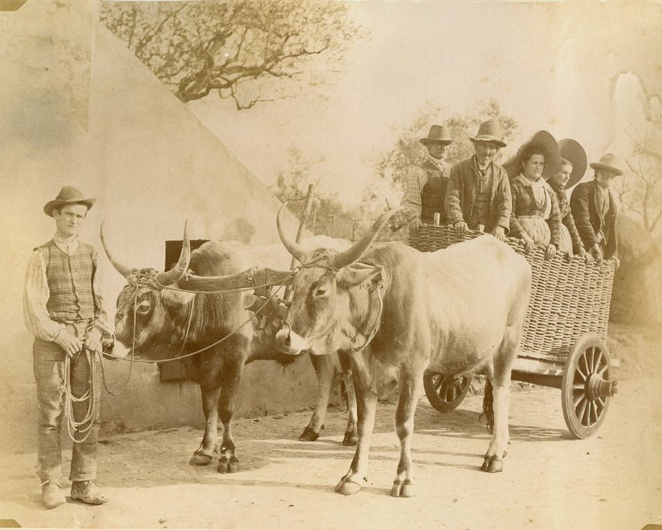 Paolo Lombardi (1827-1890), "Siena. Chart and peasants".